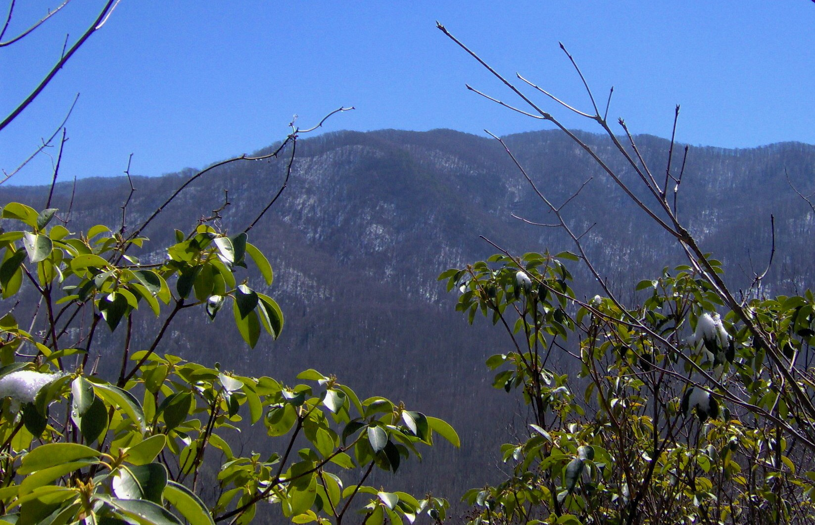 Meigs Mountain, viewed from the Curry Mountain Trail (Curry She Mountain) in the Great Smoky Mountains of East Tennessee, in the southeastern United States.